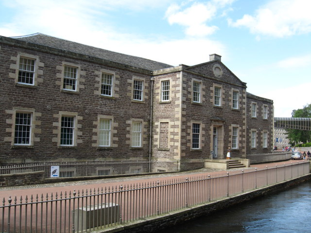 Former school at New Lanark